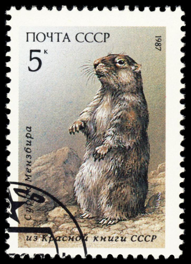 Menzbier's marmot